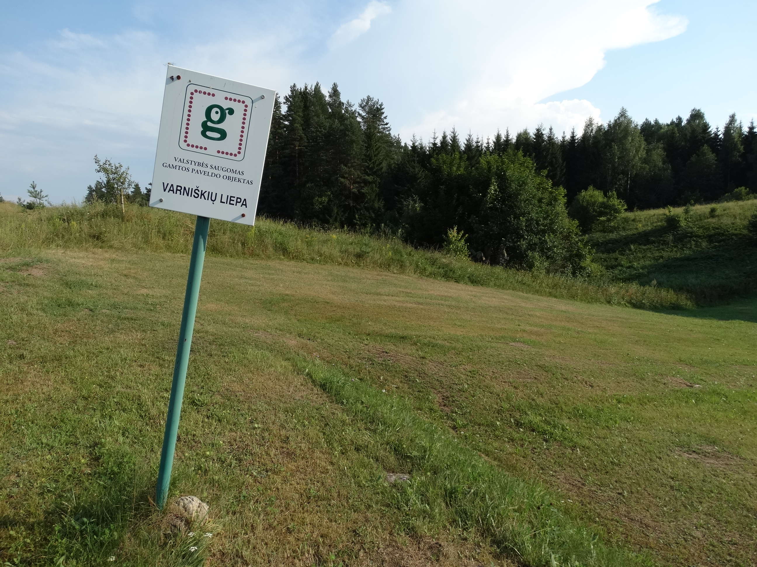 Varniškės lime tree, Utena district, Lithuania